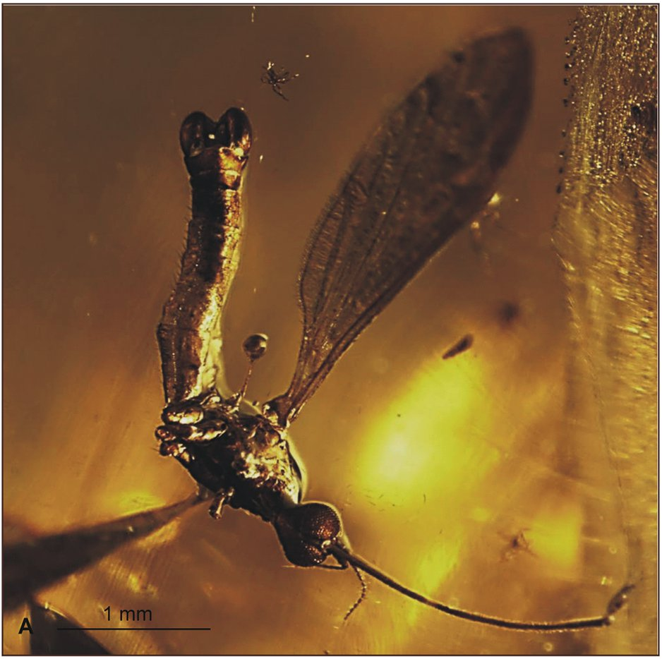 Morphology of Elephantomyia (E.) bozenae sp. nov., No. MP/3338, holotype: A. body, lateroventral view